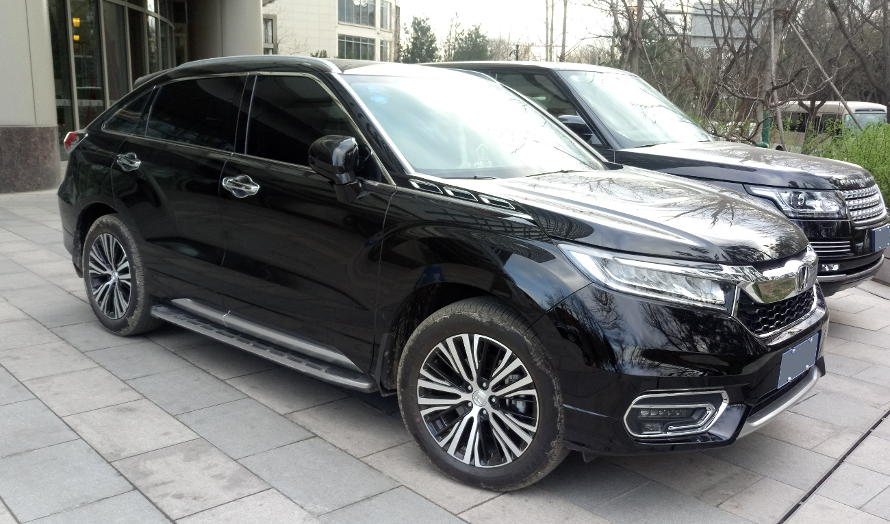 Honda Avancier CN photographed in Beijing, China.